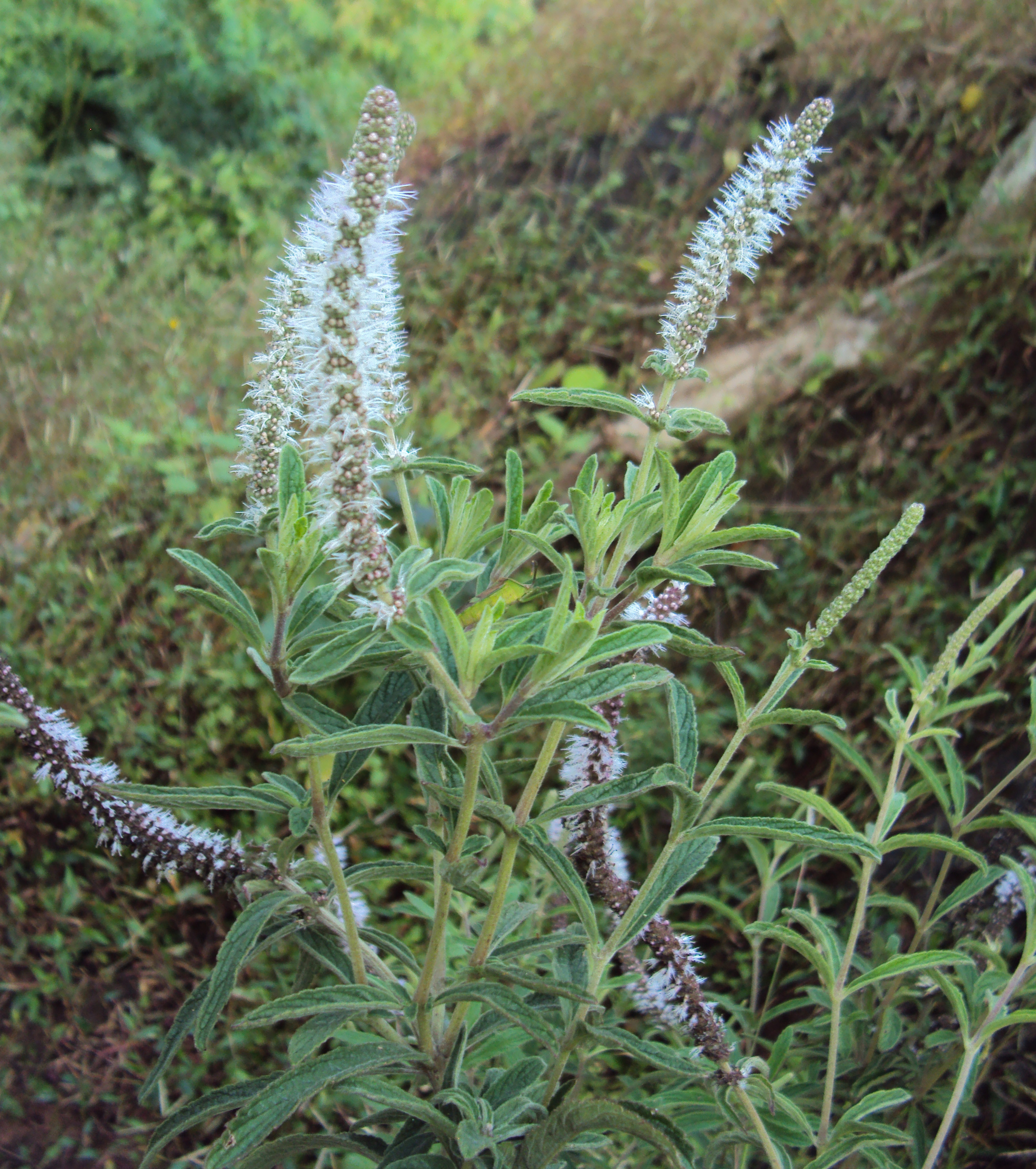 Pogostemon quadrifolius